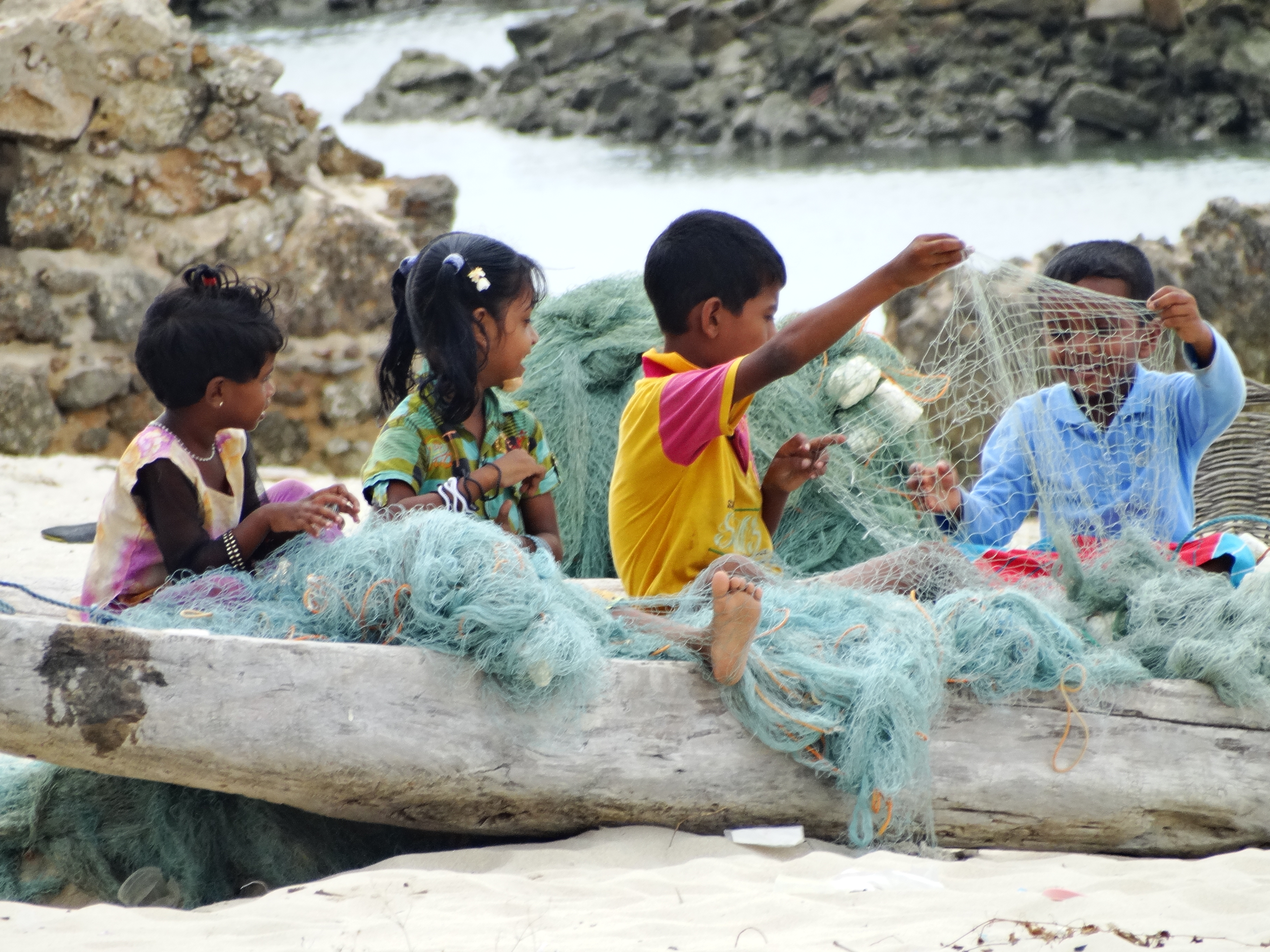 Children with Fishing Nets - Valvettiturai - Jaffna Peninsula - Sri Lanka